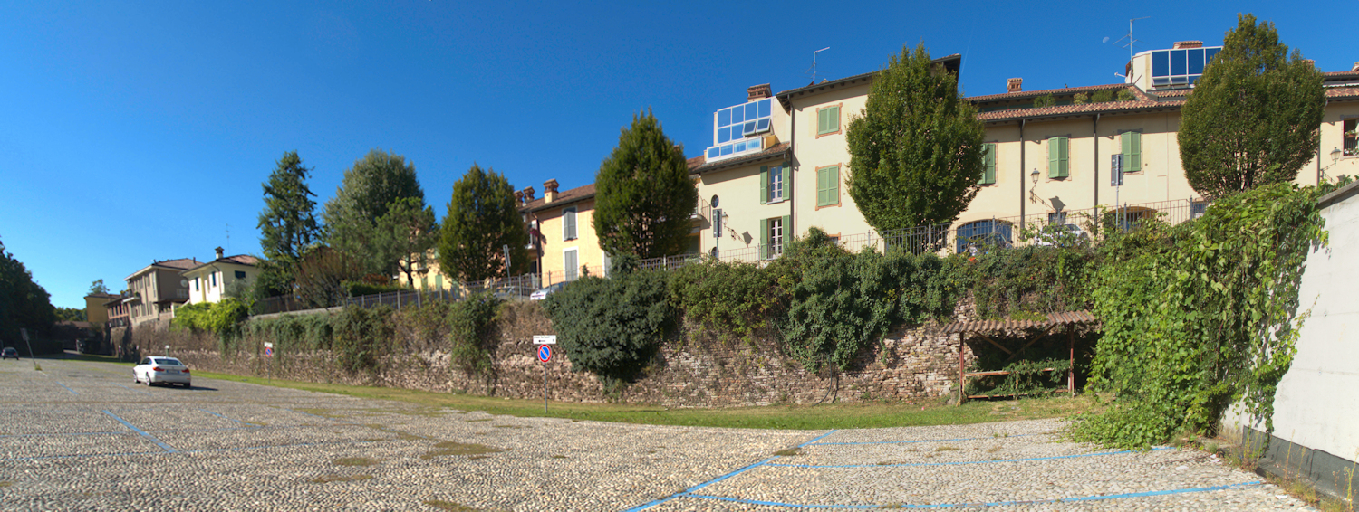 The Venetian walls of Crema were taken from the parking lot built in the early 2000s